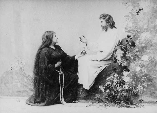 Opera singers Ernest van Dyck and Amalia Materna as Parsifal and Kundry in Act 3 of Wagner's opera Parsifal as performed at Bayreuth in 1889